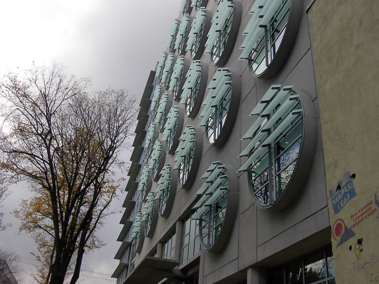 Facade of BC Cancer Research Centre in Vancouver designed by Richard Henriquez Partners